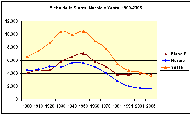 The population of Yeste, Nerpio and Elche de la Sierra, main municipalities of the sierra del Segura region, Albacete, Spain, (1900-2005). Own work, given to PD. Source: Instituto Nacional de Estadística.